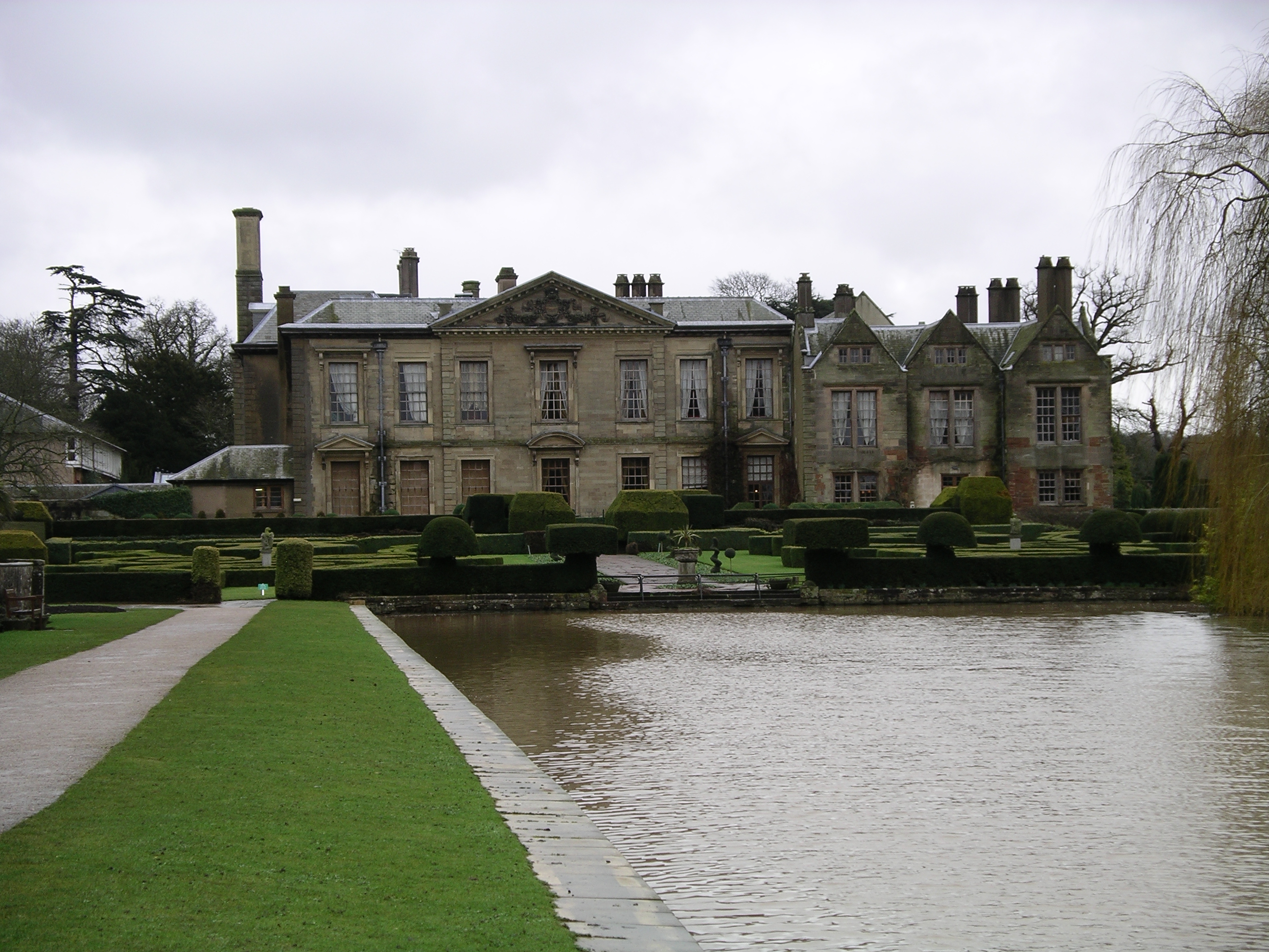 Photo of the West Wing, lake and gardens at Coombe Abbey Country Park, Warwickshire, England.